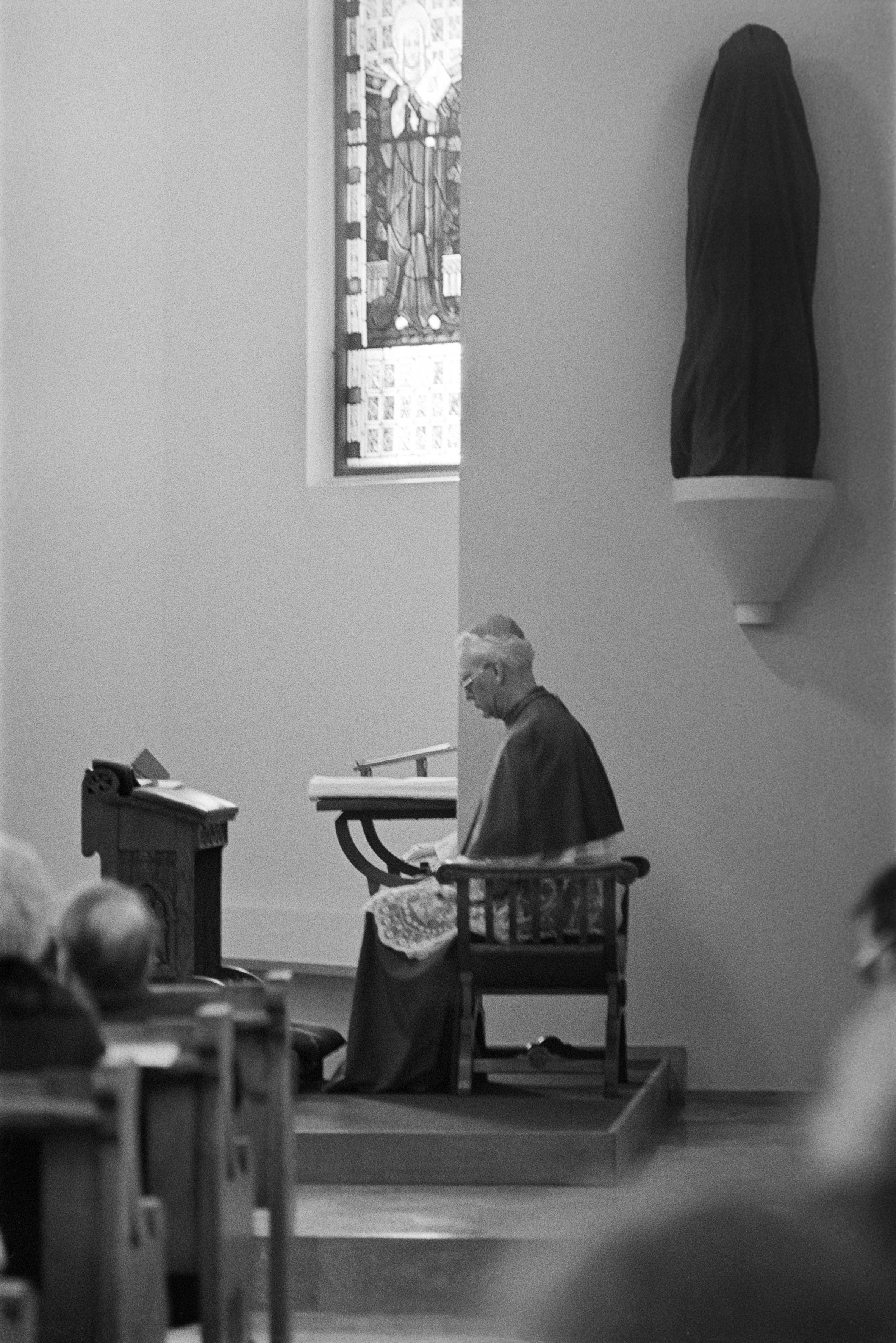 Photograph of the Dutch-Finnish bishop Paul Verschuren (1925–2000) at St. Henry’s Cathedral, Helsinki, in Easter 1978.